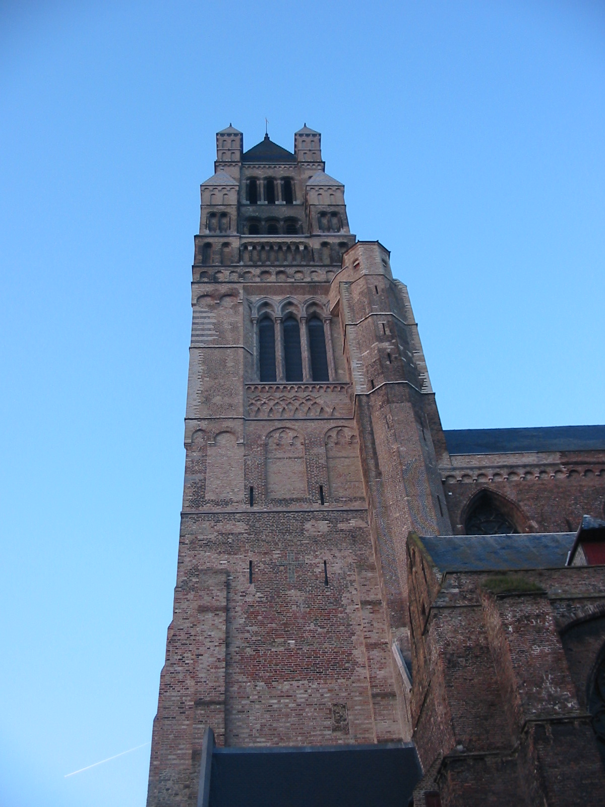 Cathedral of Bruges